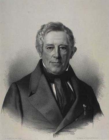 Hans Rudolph Juel (1773-1857), Danish nobleman, estate owner, and colonel